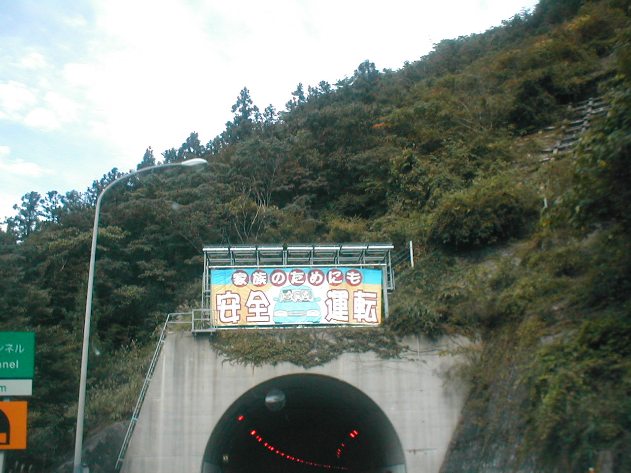 Japanese Chugoku Expressway, Sakai tunnel